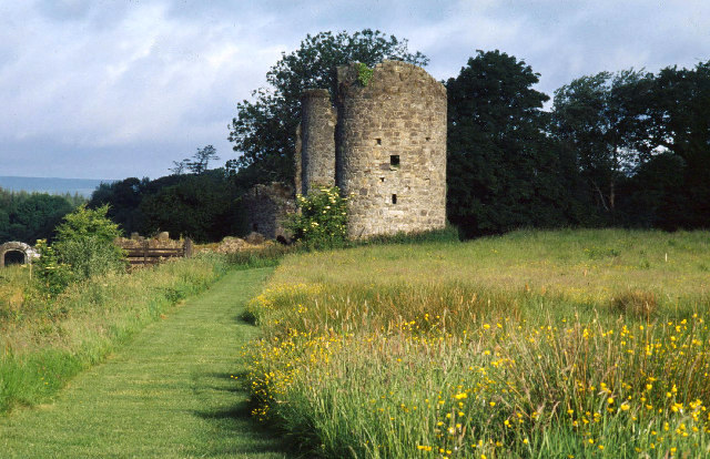 Crom Old Castle. This is all that remains of the 17th century castle at Crom, on the shore of Upper Lough Erne. The estate is now in the hands of the National Trust.